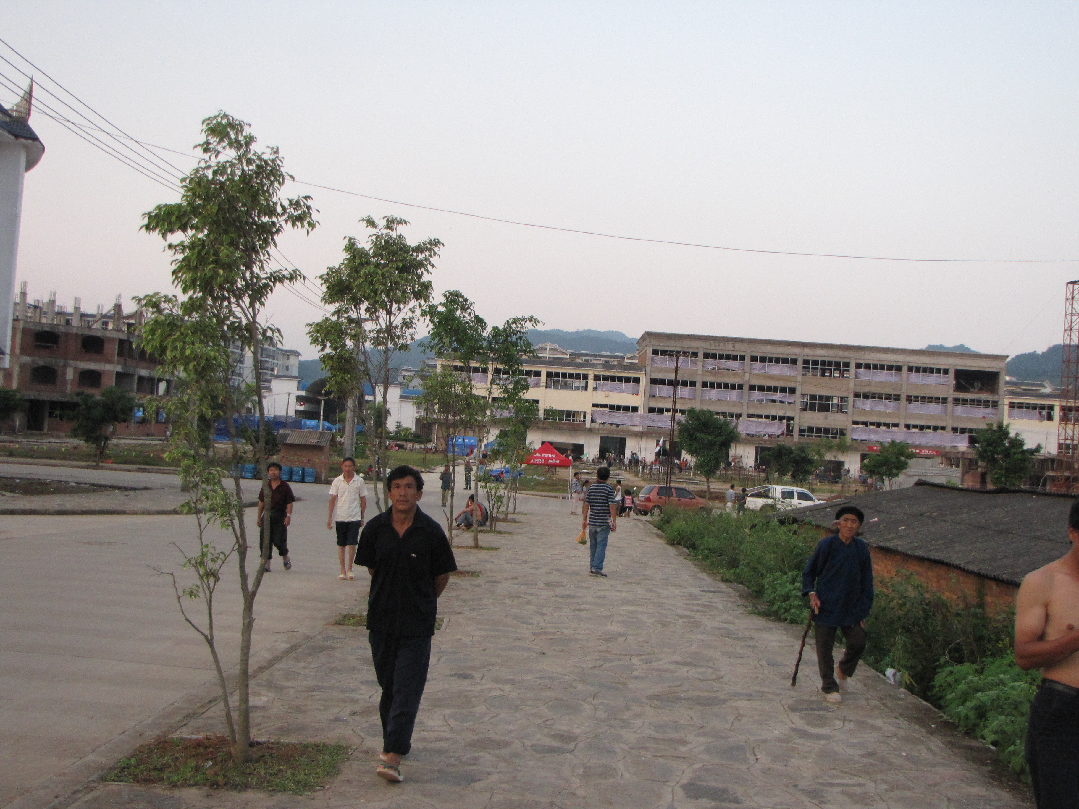 Thousands of refugees from Kokang, Special District No. 1 of North Shan State, Myanmar waited just across the border for several days in Nansan, Yunnan while Myanmar forces and the Kokang local forces fought. They went home after the Kokang forces took refuge in China and surrendered their weapons.